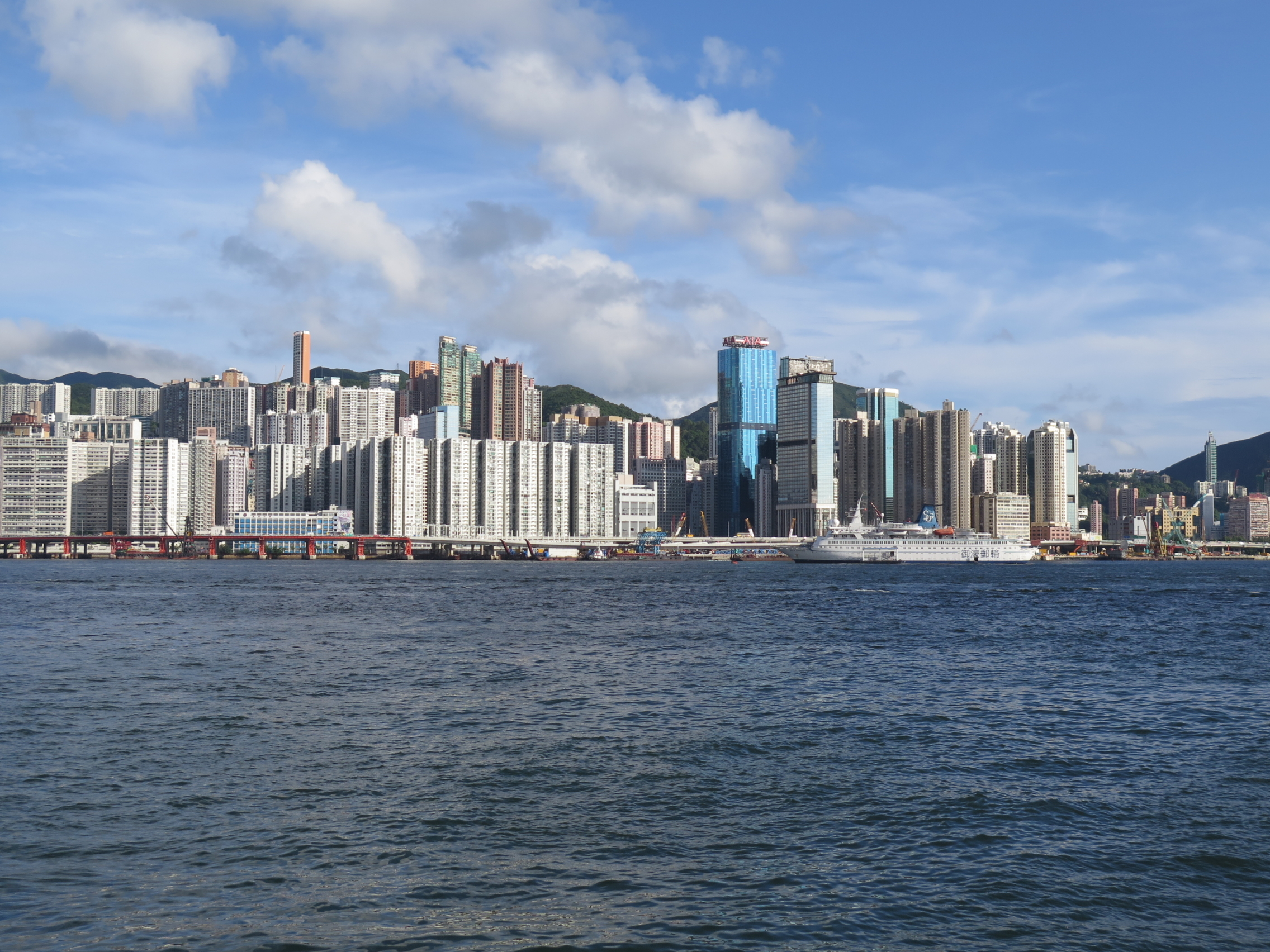 Fortess Hill